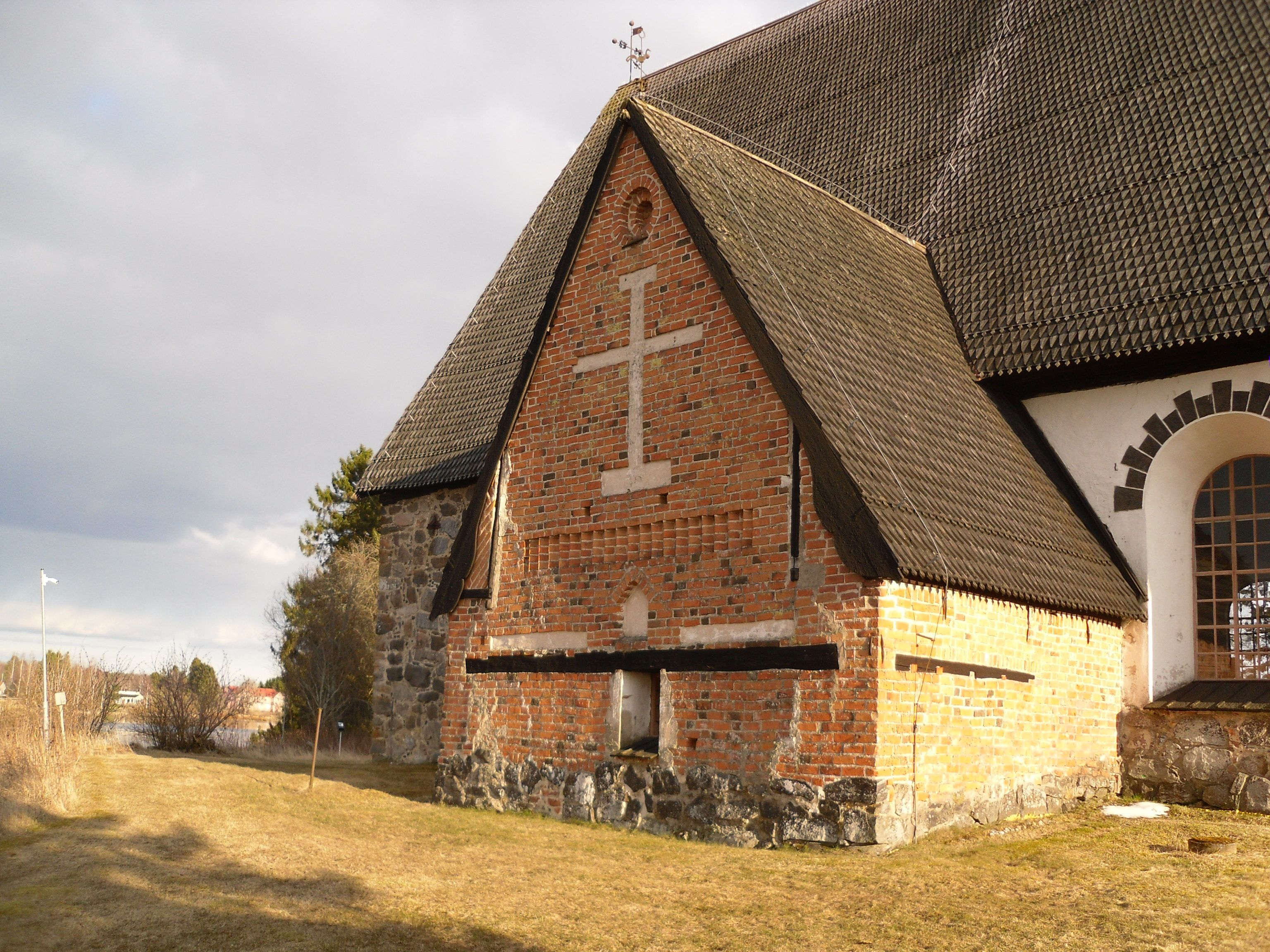 Oldest part of Isokyrö old church, originally built in 1510's